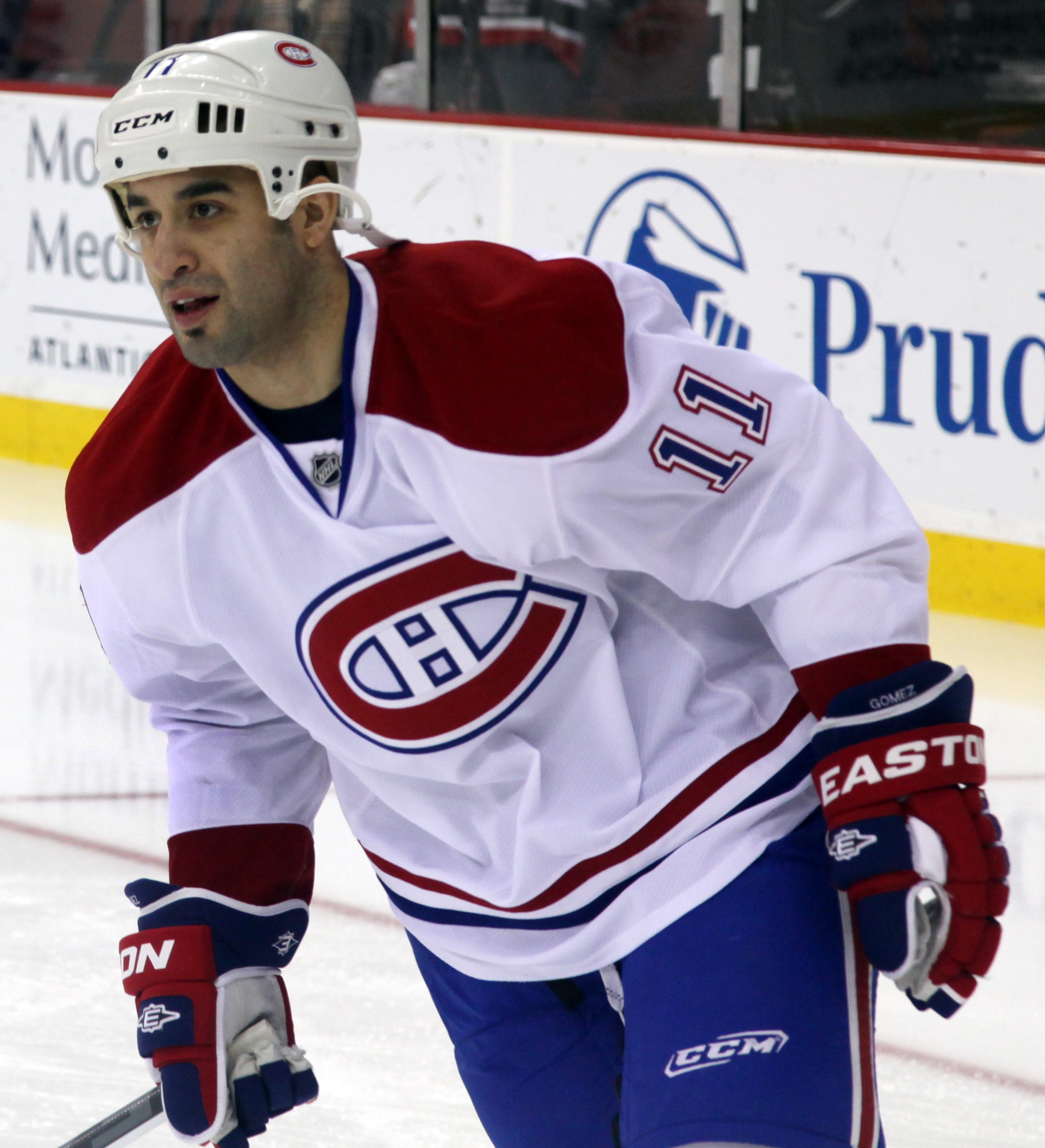 Scott Gomez in February 2012.